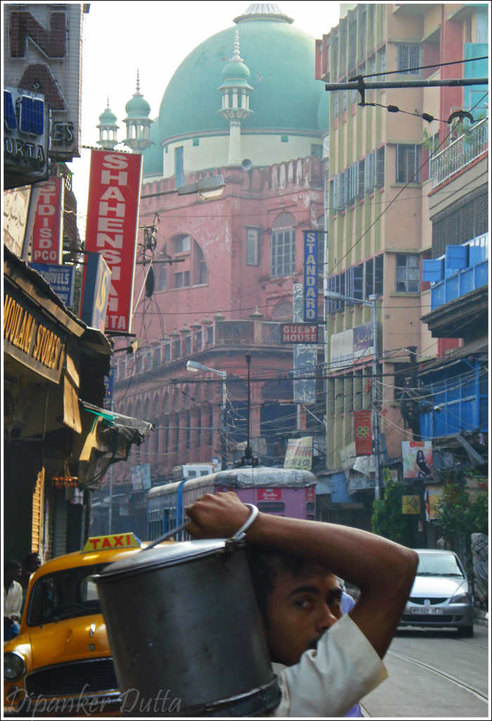 A view of the Nakhoda Masjid, Kolkata, India from Zakariya Street